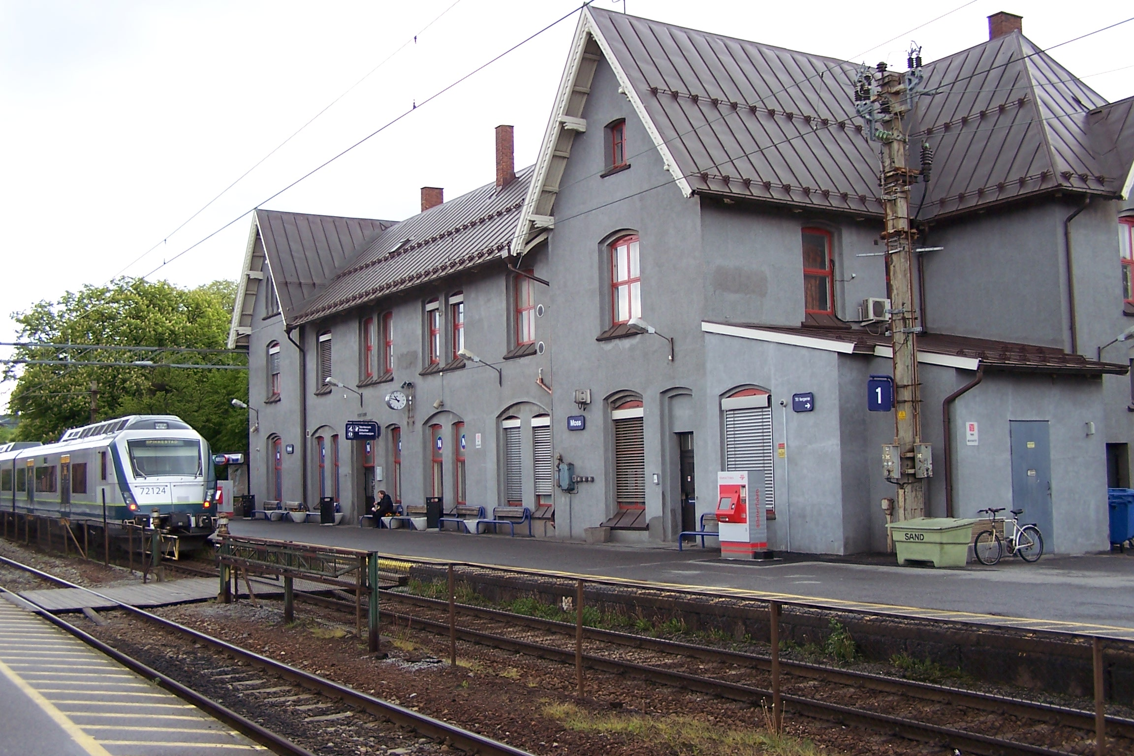 Moss train station